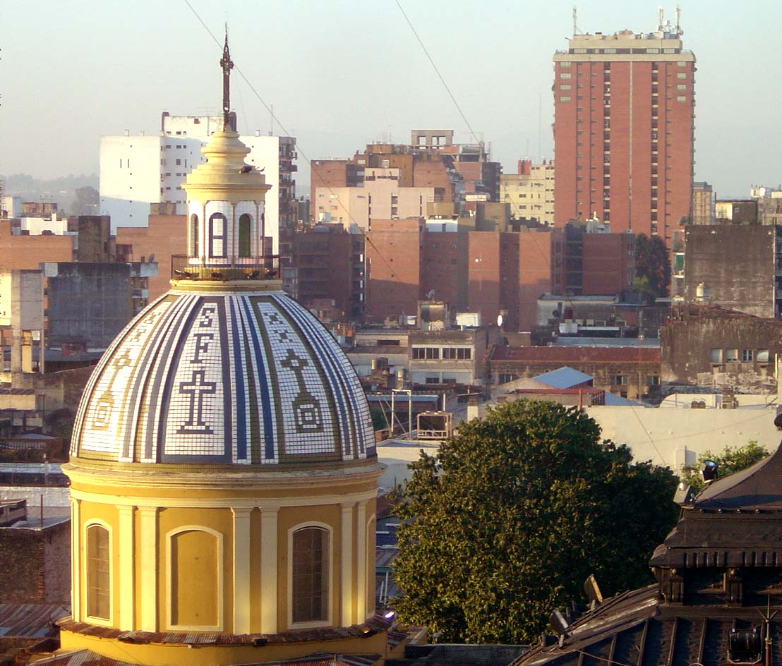 View of the San Francisco Church and the north side of the city in the background, San Miguel de Tucumán, Argentina.